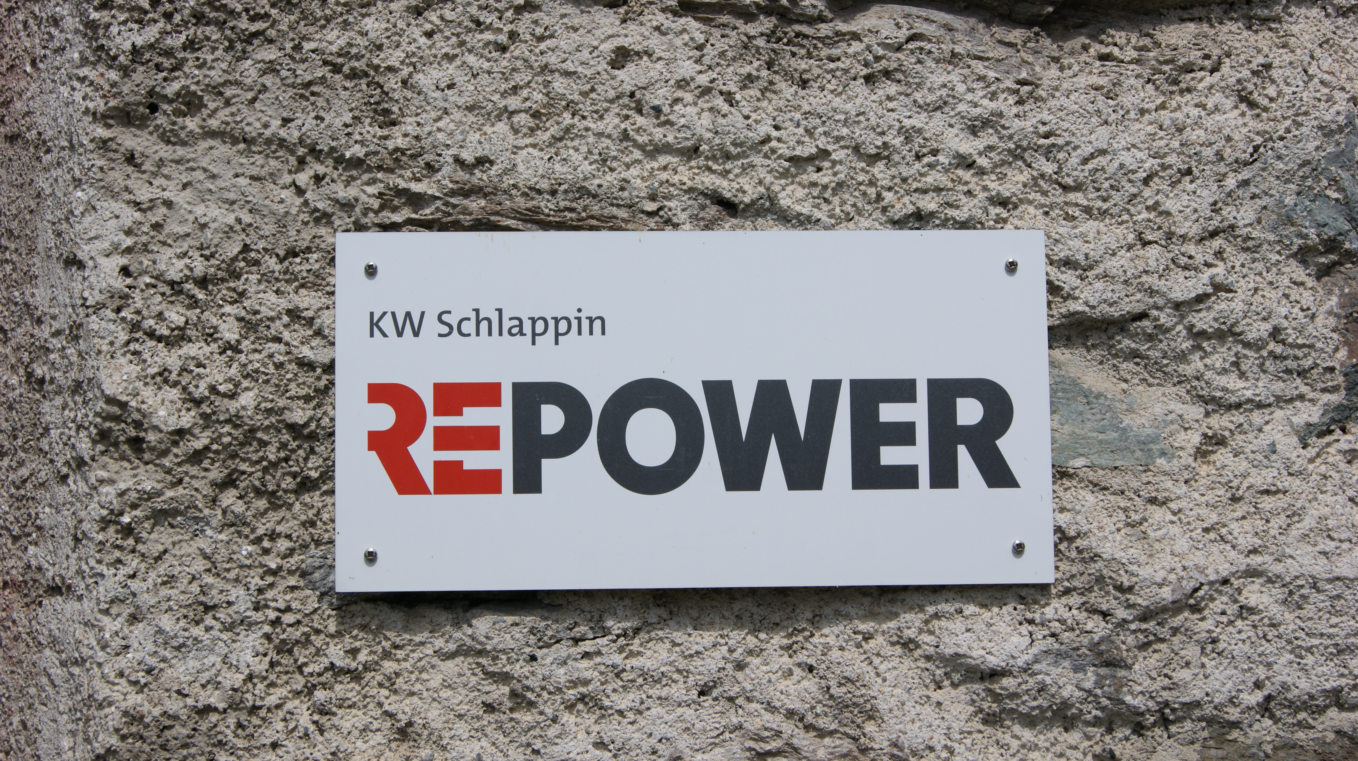 Klosters-Serneus in Grisons, Switzerland. Power plant Schlappin near Klosters Dorf.